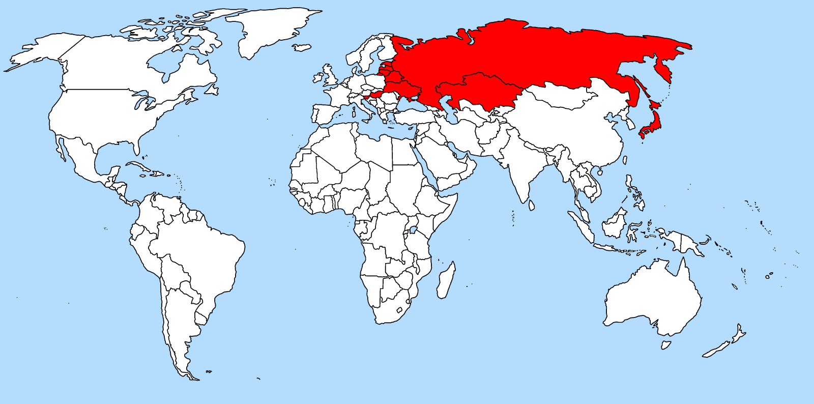 These 10 countries(red painted) have more suiciders than other countries.（自殺者数で上位10位までの国々） 1.Lithuania（リトアニア） 2.Russia（ロシア） 3.Belarus（ベラルーシ） 4.Ukraine（ウクライナ） 5.Kazakstan（カザフスタン） 6.Latvia（ラトビア） 7.Hungary（ハンガリー） 8.Estonia（エストニア） 9.Slovenia（スロベニア） 10.Japan（日本）